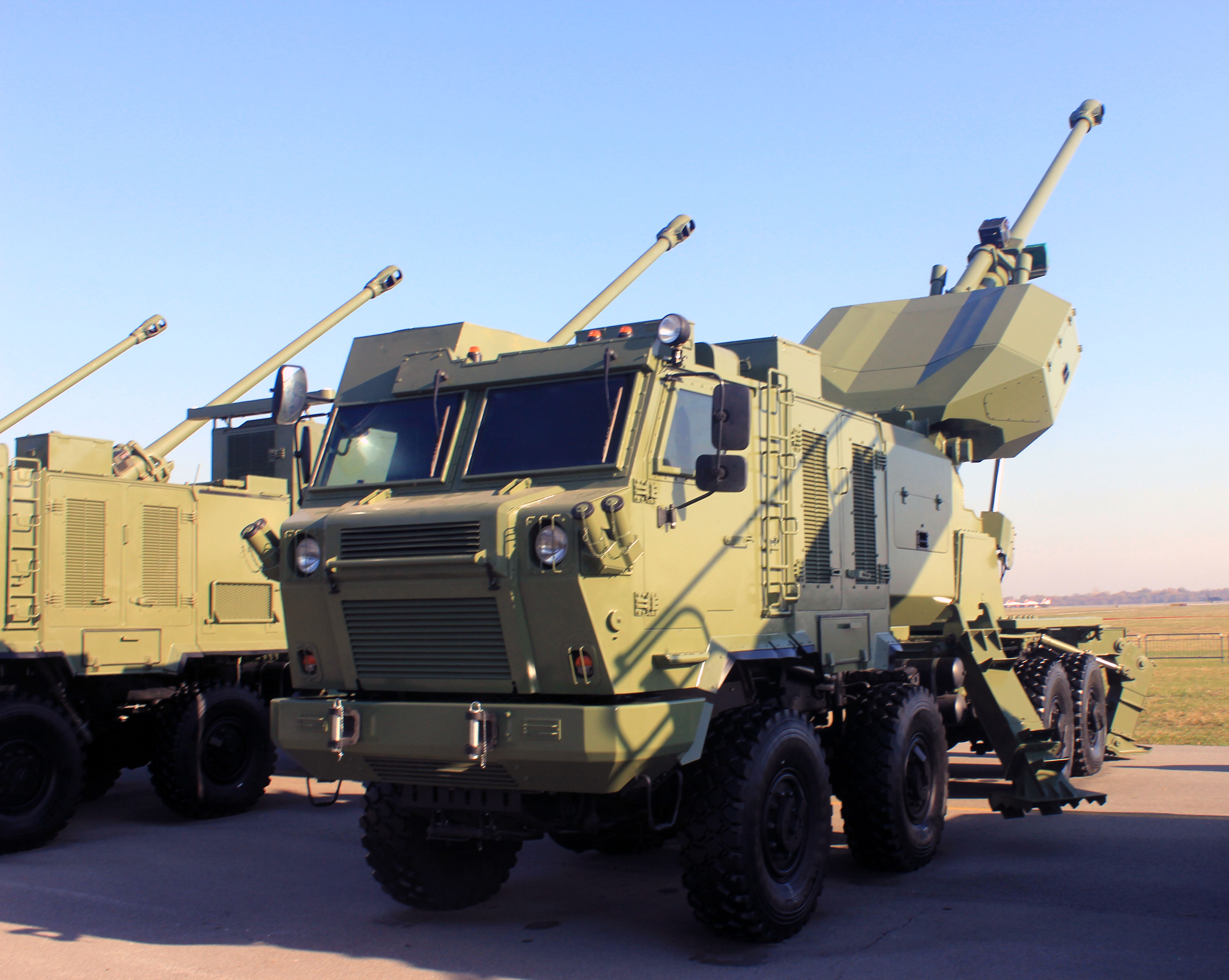 New 155mm SPH Aleksandar at Batajnica Air Base presented during the Belgrade liberation day celebration and "Sloboda 2017" military exercise.